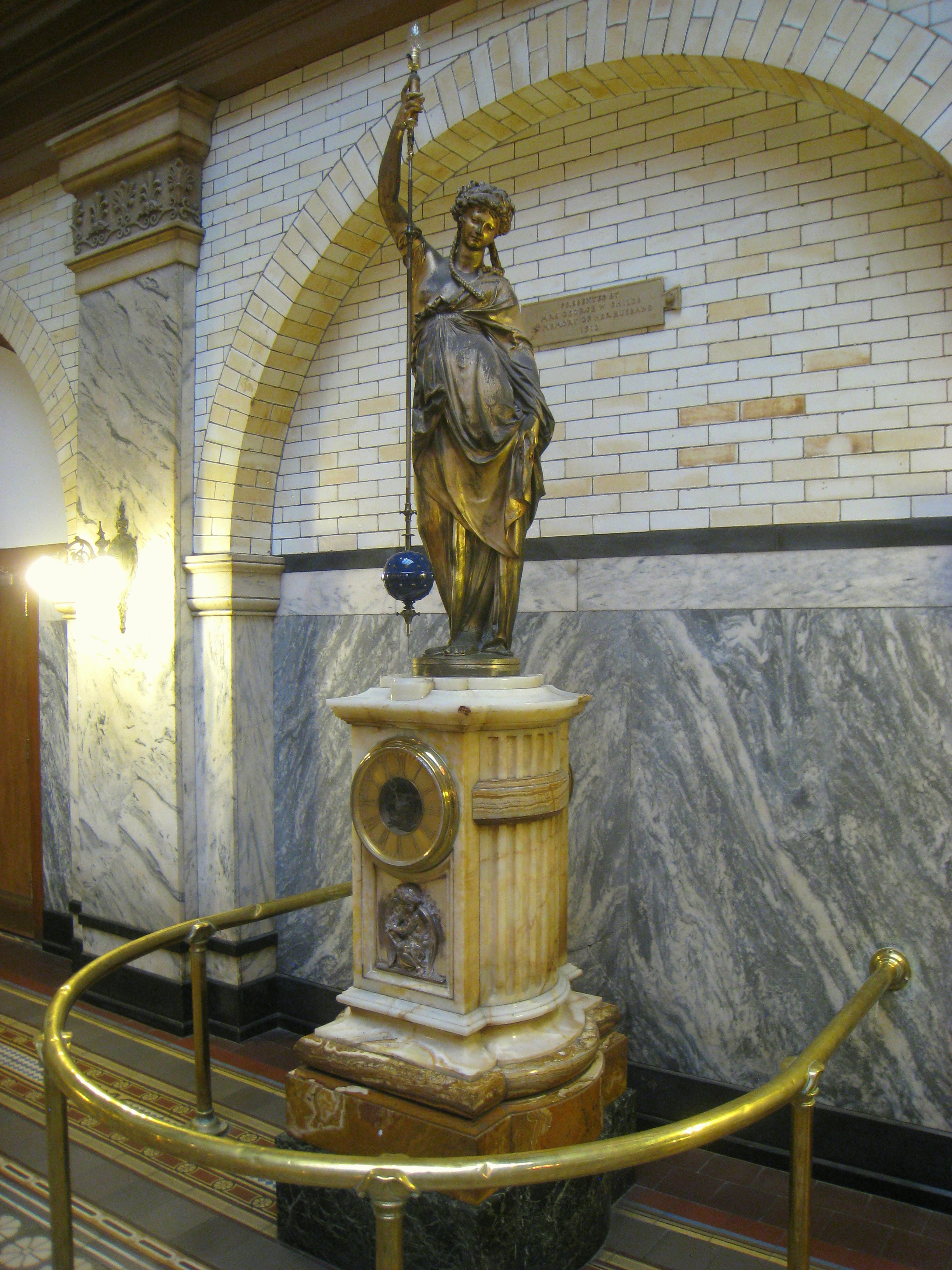 Conical pendulum clock by Henri-Eugène-Adrien Farcot, sculpture by Albert-Ernest Carrier-Belleuse, located in Main Building, Drexel University, Philadelphia, Pennsylvania, USA. George William Childs purchased it for his drawing room at 2128 Walnut Street. Eighteen years after Childs’ death in 1894, his wife donated the clock in 1912 to the University in his memory. The clock was purchased at the Parisian Universal Exposition of 1867 for a staggering $6,000, making it at the time one of the world’s most expensive clocks. Conical clocks have a pendulum that operates in a circular motion as opposed to side to side. This artwork is in the public domain because the artists died more than 70 years ago.